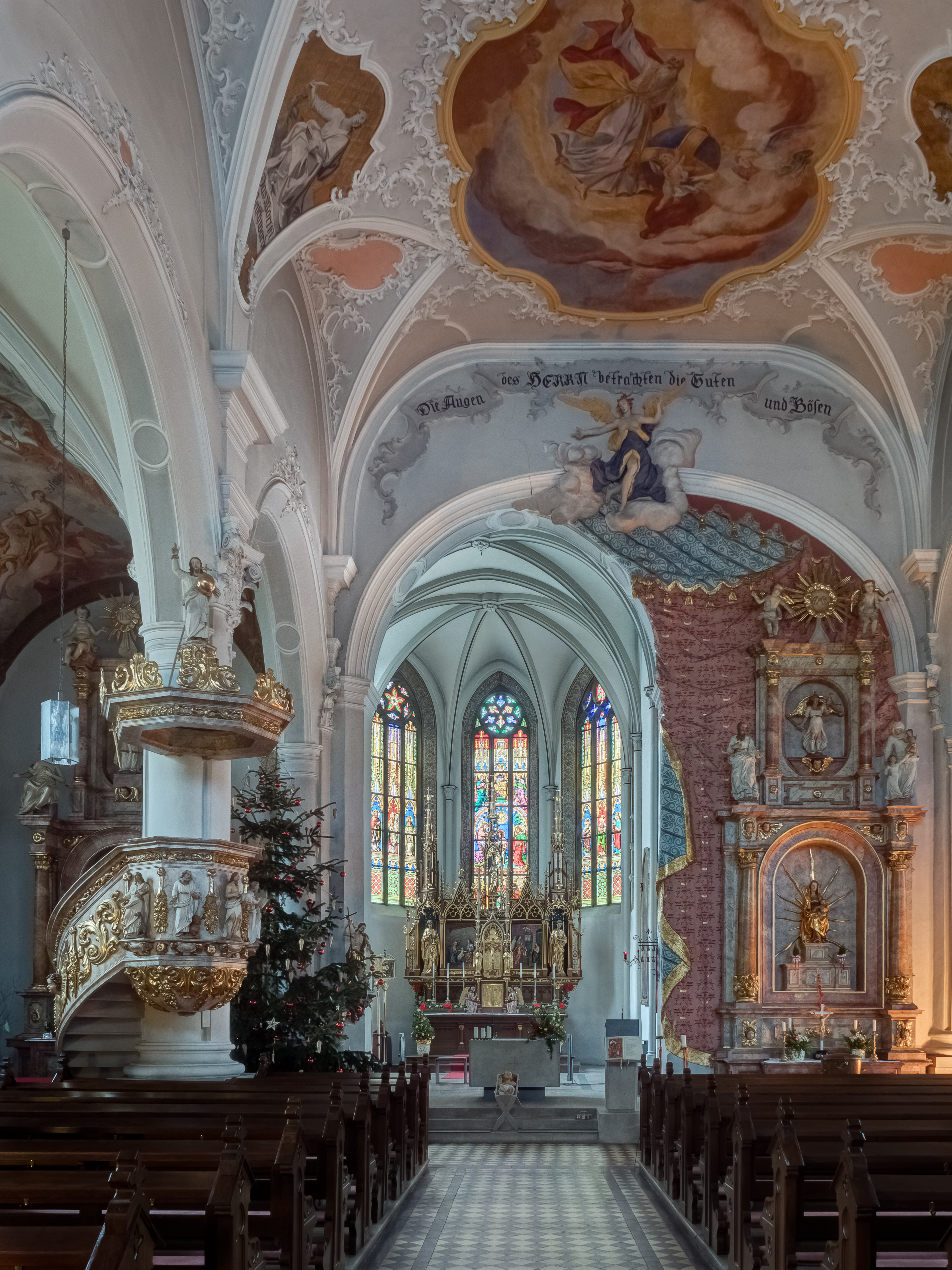 Chancel of the Catholic parish church St. John the Baptist in Seßlach